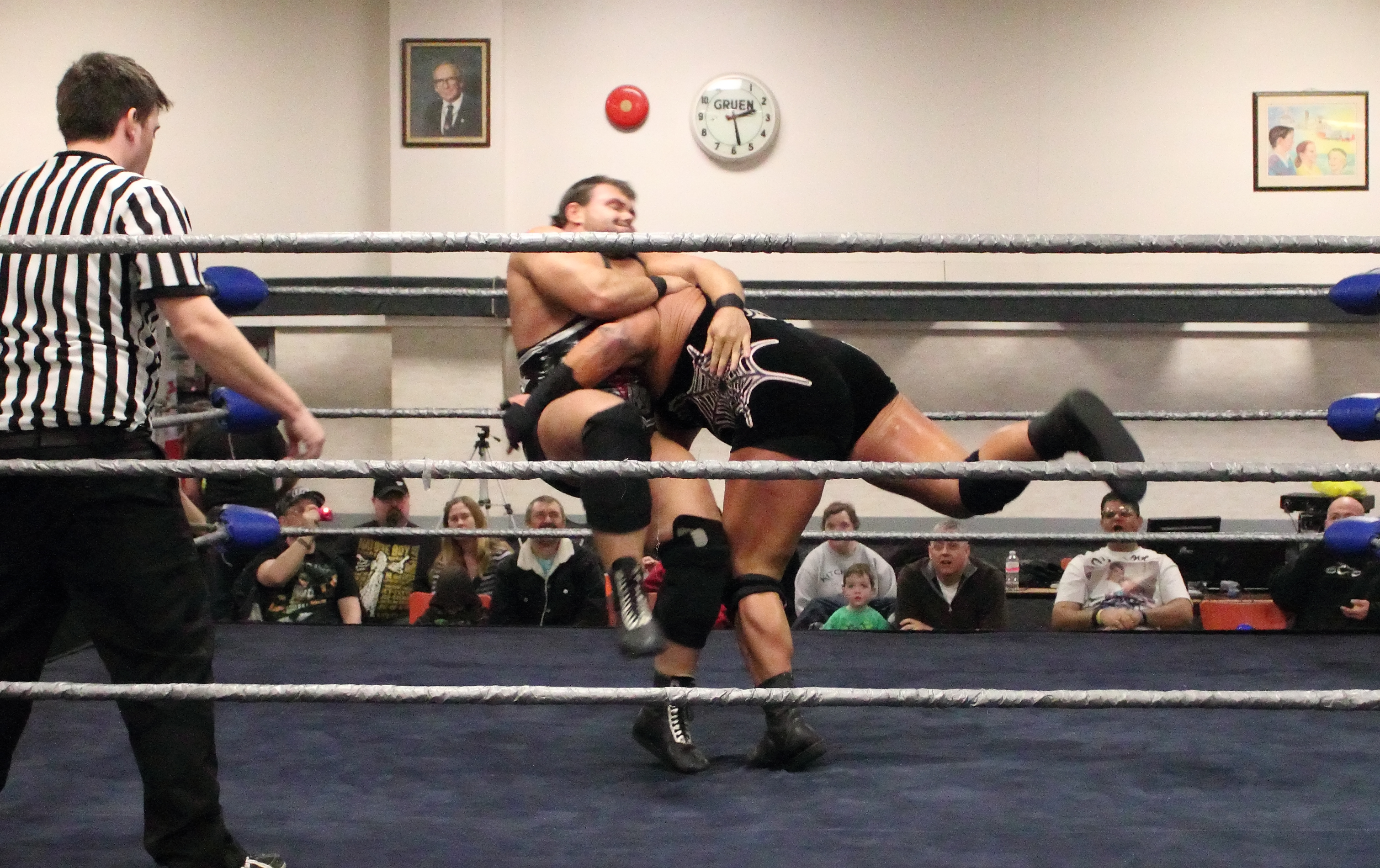 Professional wrestler Rhino delivering a spear to Michael Elgin at a Tri-City Wrestling show